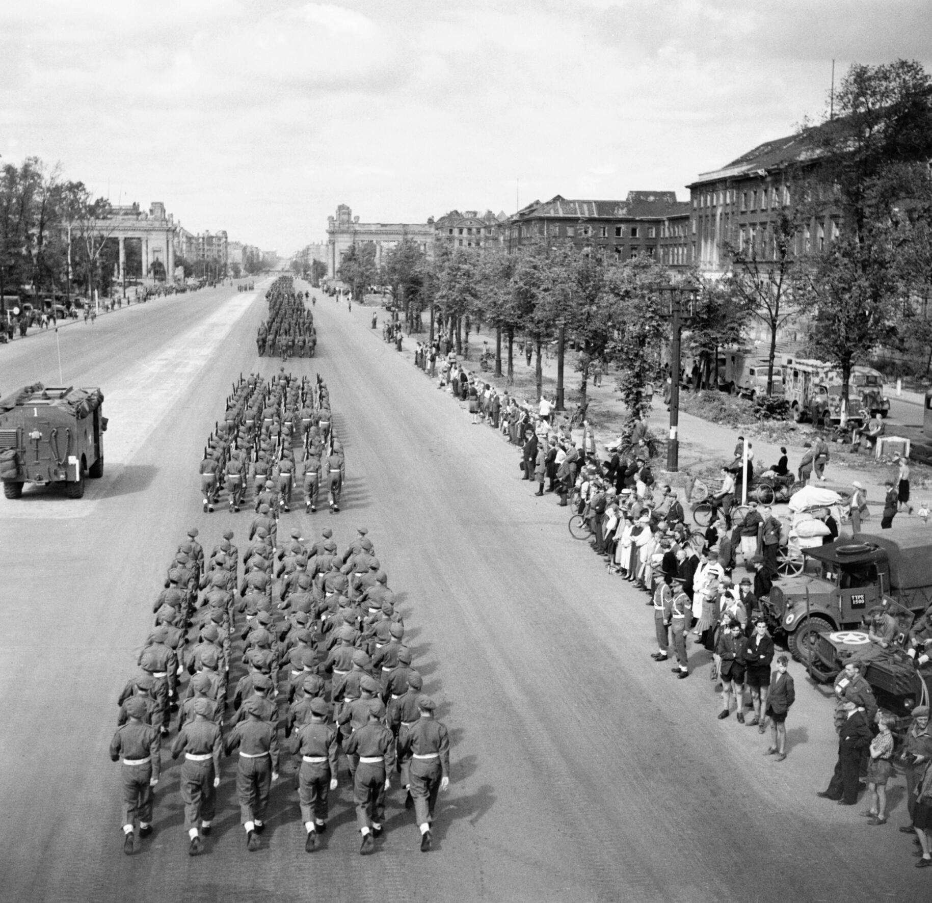 Germany Under Allied Occupation British Victory Parade in Berlin: British troops march down the Charlottenburg Chaussee, Berlin.